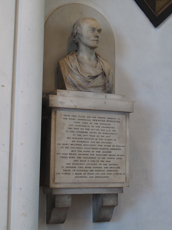 Memorial to Spencer Perceval